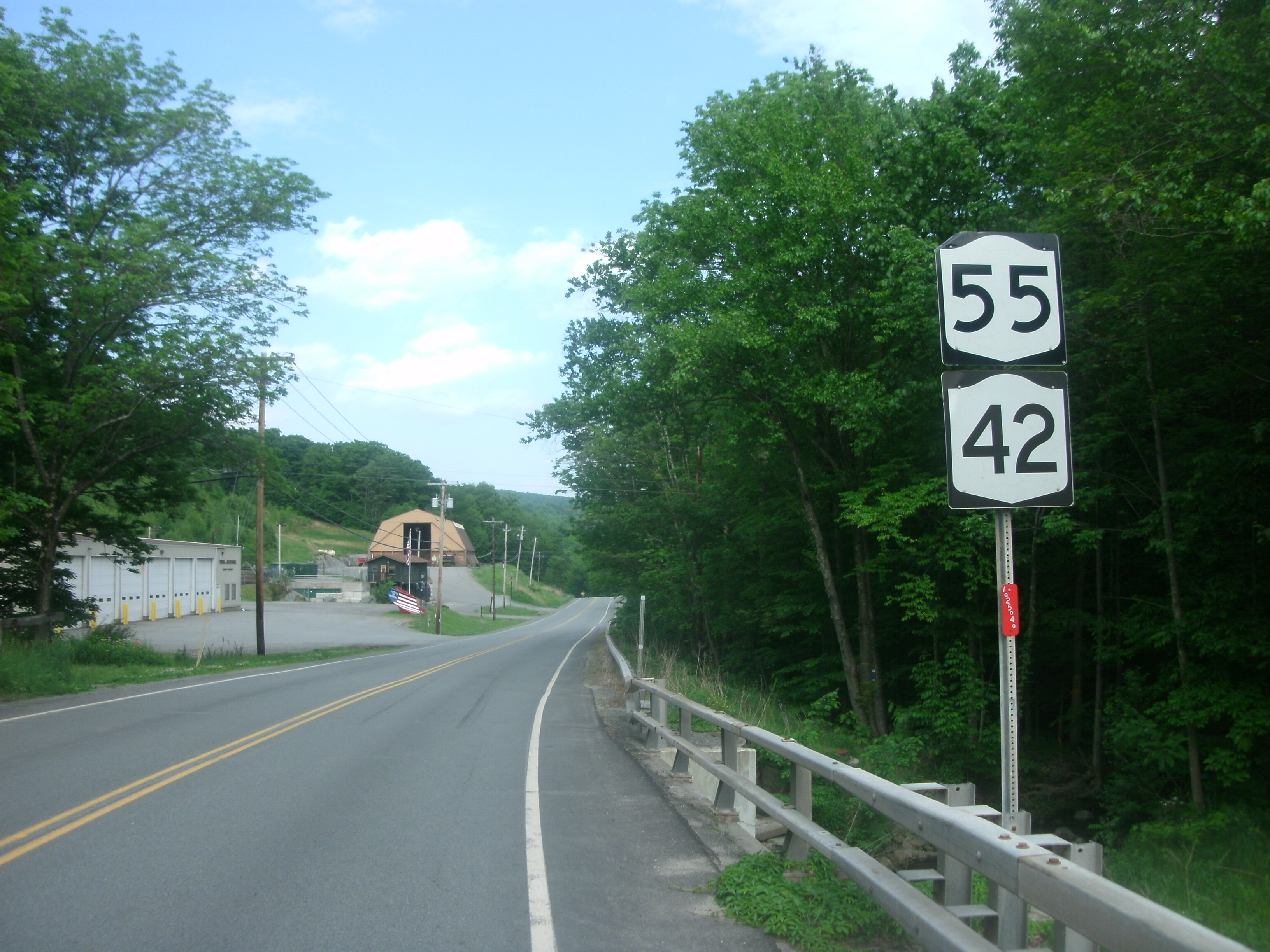 Signage on NY 55 eastbound at the junction with Sullivan 19, displaying signage for NY 42.